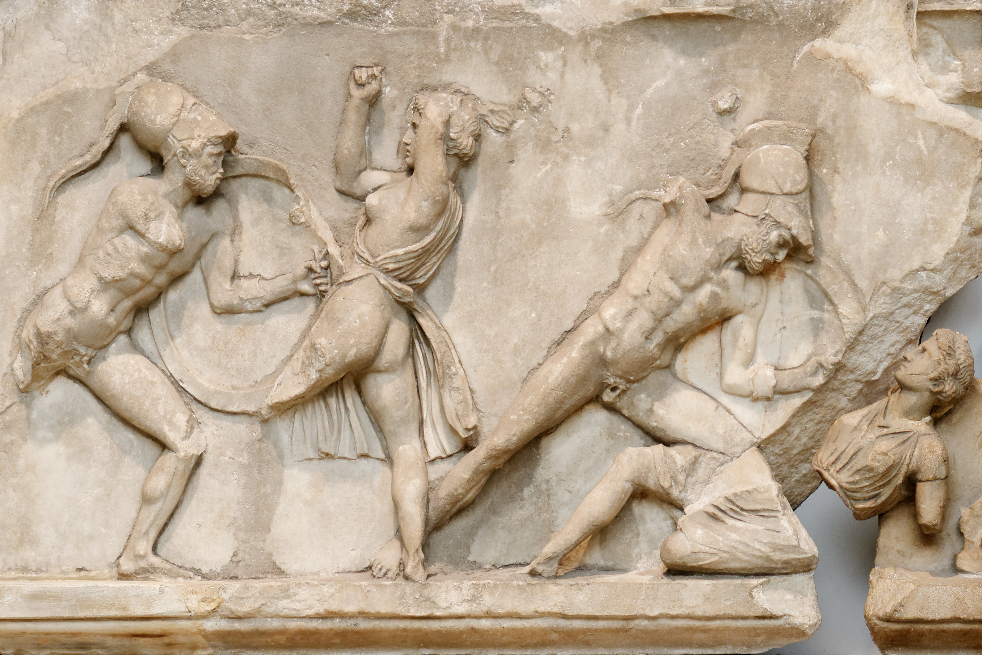 Detail of the Amazon Frieze from the Mausoleum at Halicarnassus: combats between Greeks and Amazons.